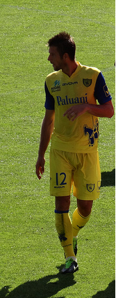 Boštjan Cesar playing for Chievo in 2013.